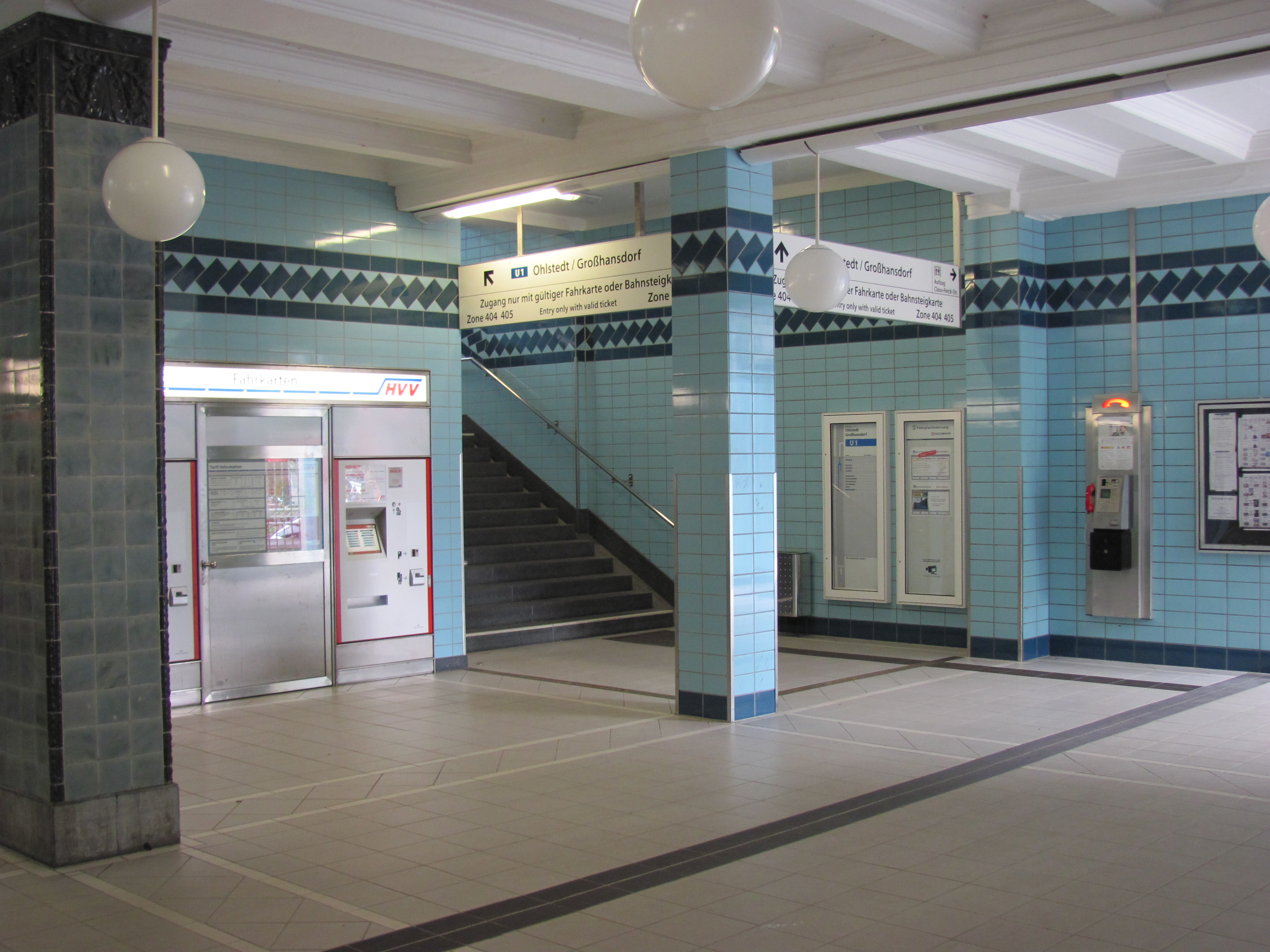 U-Bahn station Volksdorf in Hamburg, Germany